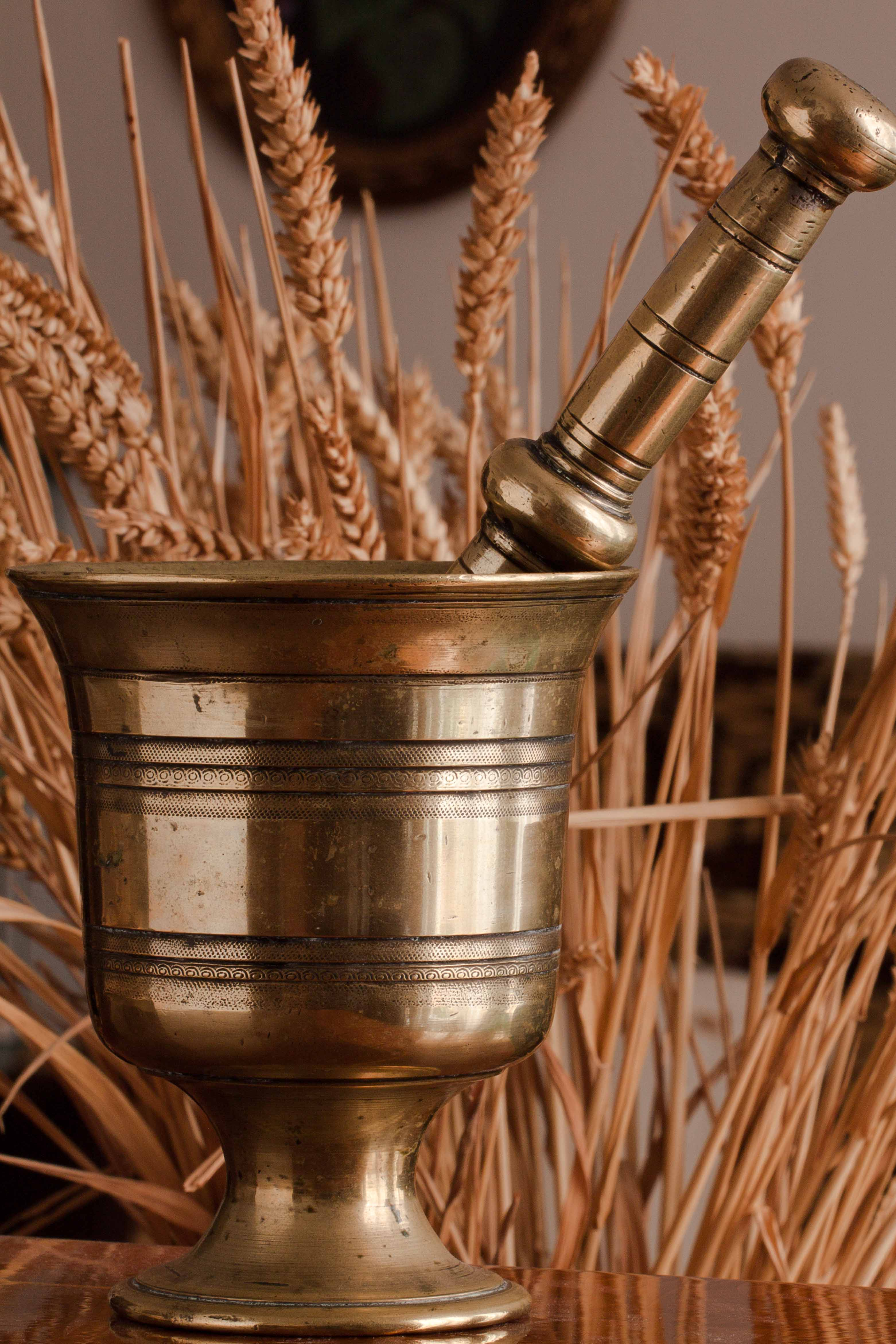 This Mortar and Pestle is around 100 years old. Given to my grandmother at her wedding. Obviously it has been used thousands of times and can be used thousands more. Made from heavy bronze alloy, besides its medium size it weighs 2.7 kg (5.9 lbs). It is hand carved. It was used traditionally in Greece to crush/grind/mix hard grains or seeds for cooking purposes. It's still in use.